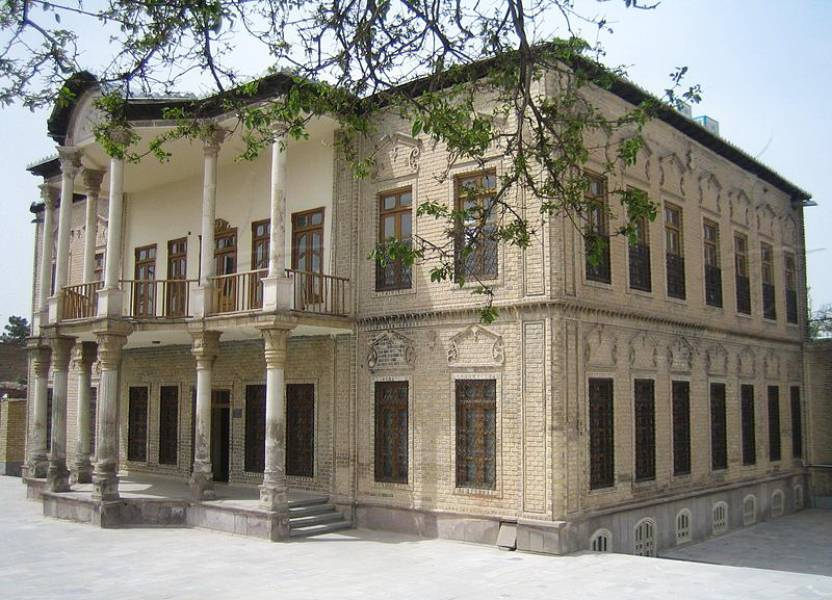 sardar mofakham mansion